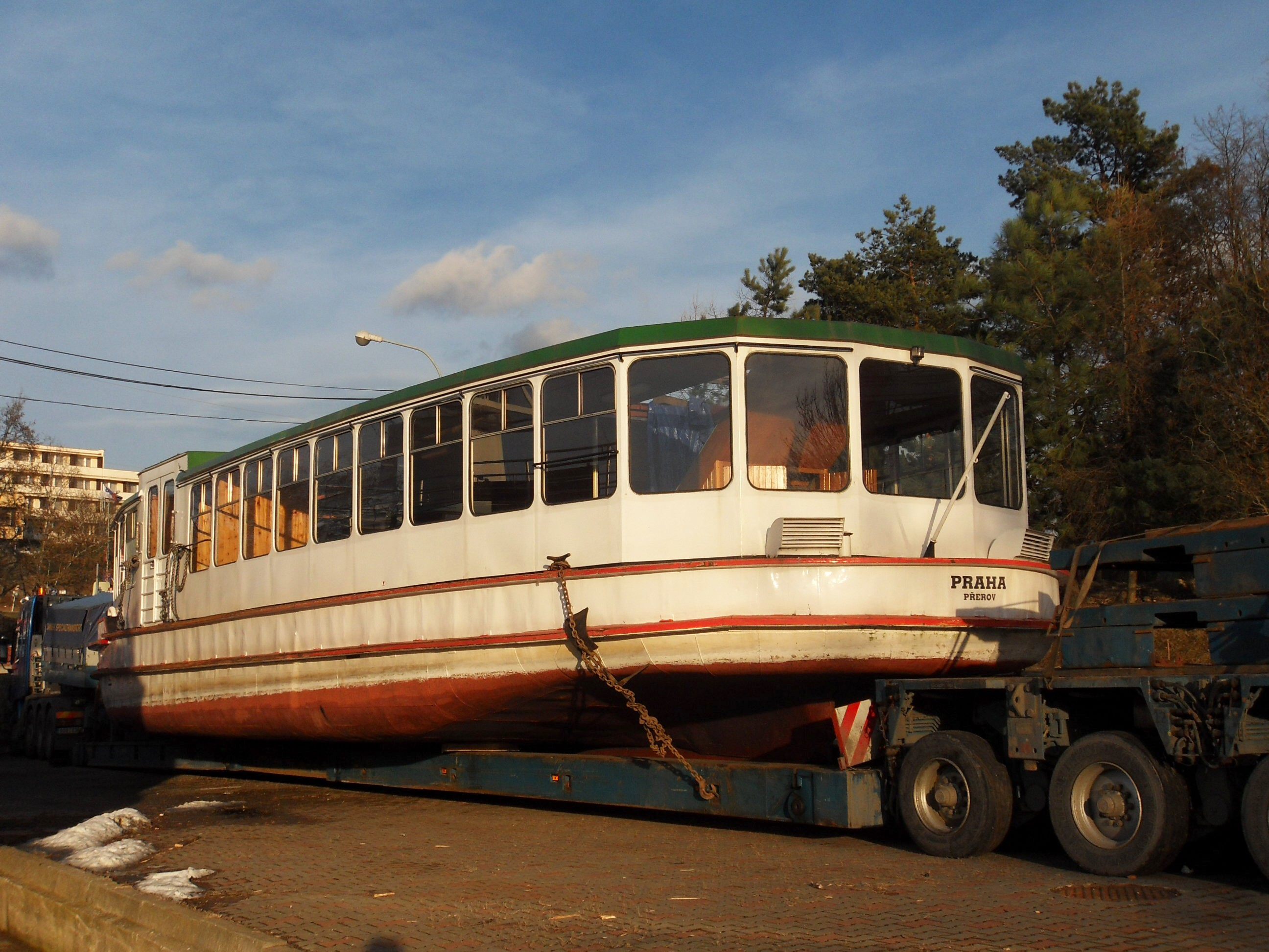 Praha ship, Brno-Bystrc, Czech Republic